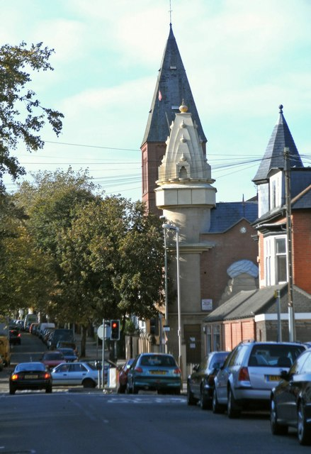 Temple and church in Westcotes The Shree Jalaram Prarthana Mandal Hindu temple is on the corner of Westcotes Drive and Narborough Road. The taller tower beyond is The Church of the Martyrs. Briton Street is in the foreground.